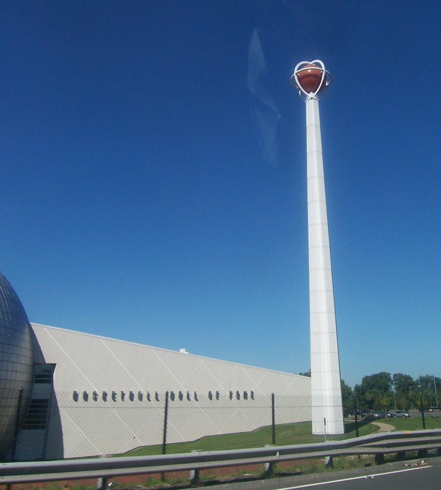 Basketball Hall of Fame at noon; Springfield, Massachusetts.